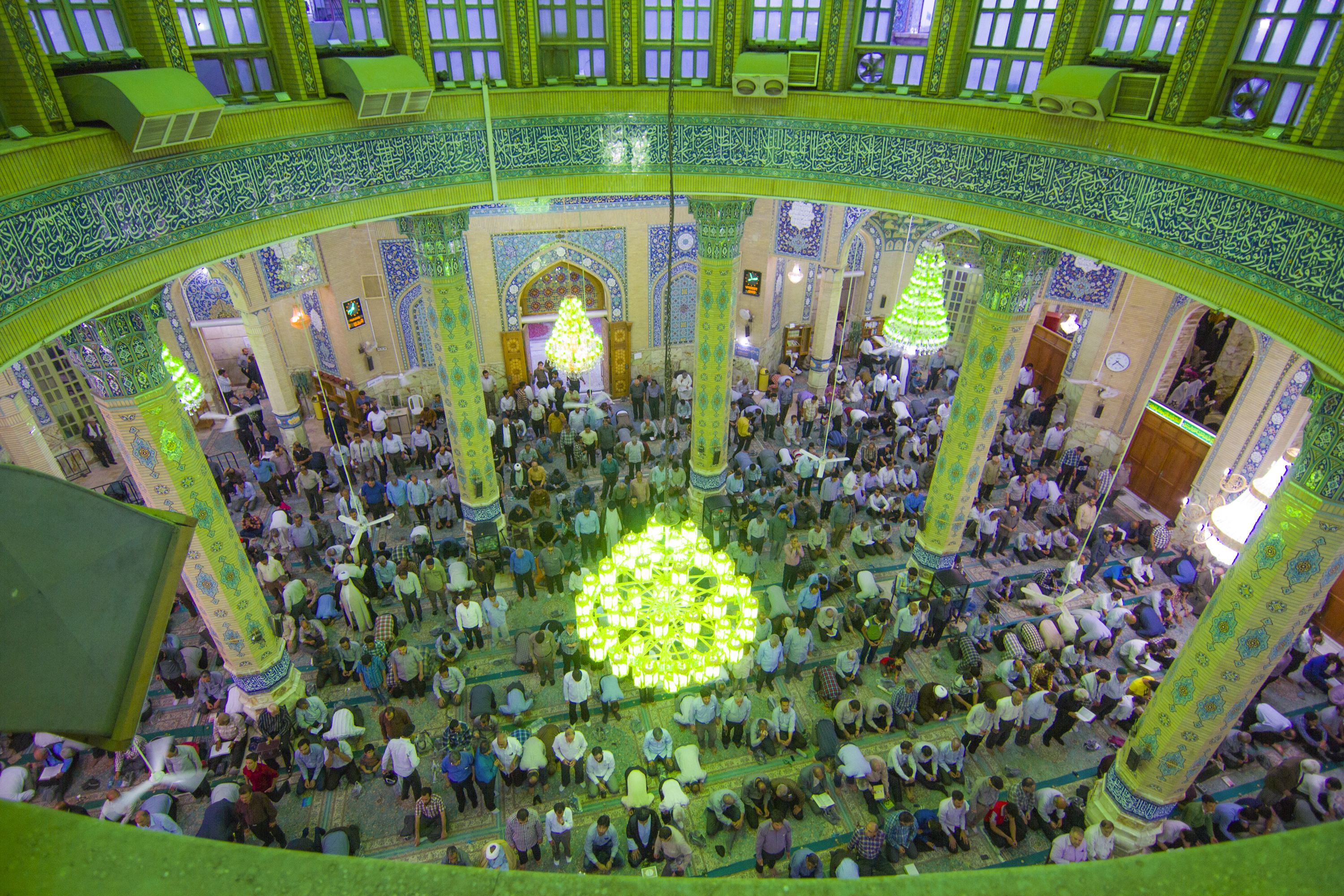 The Jamkaran Mosque is one of the primary significant mosques in the city of Qom, Iran.